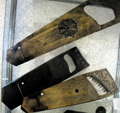 Novaday reconstruction of "wind-type gusli" by Ales Chumakou, Belarus Беларуская (тарашкевіца): Сучасная рэканструкцыя (Майстар - Алесь Чумакоў) лірападобных гусьляў, Беларусь